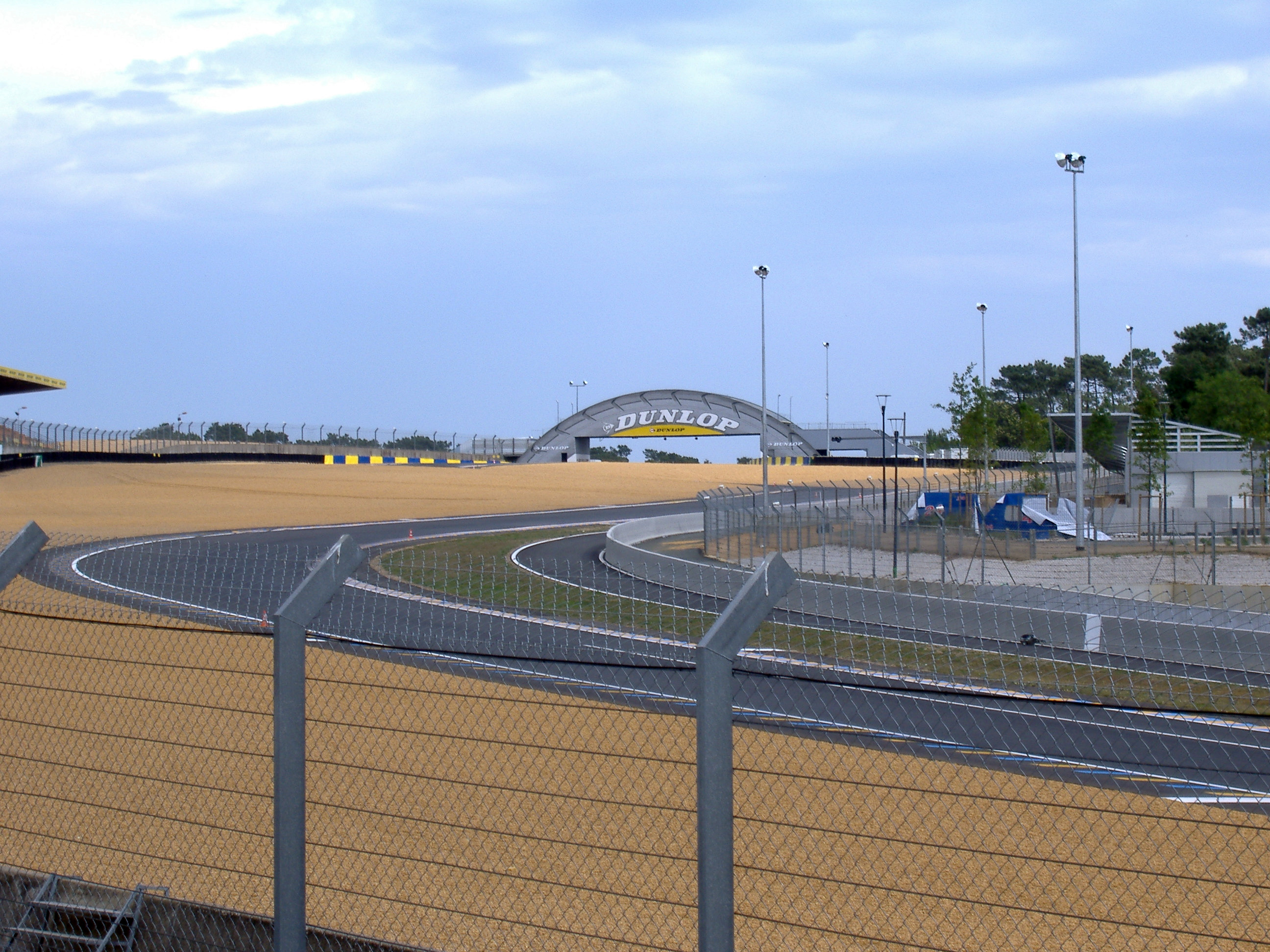 Circuit de la Sarthe. Taken by me in Junes 2006